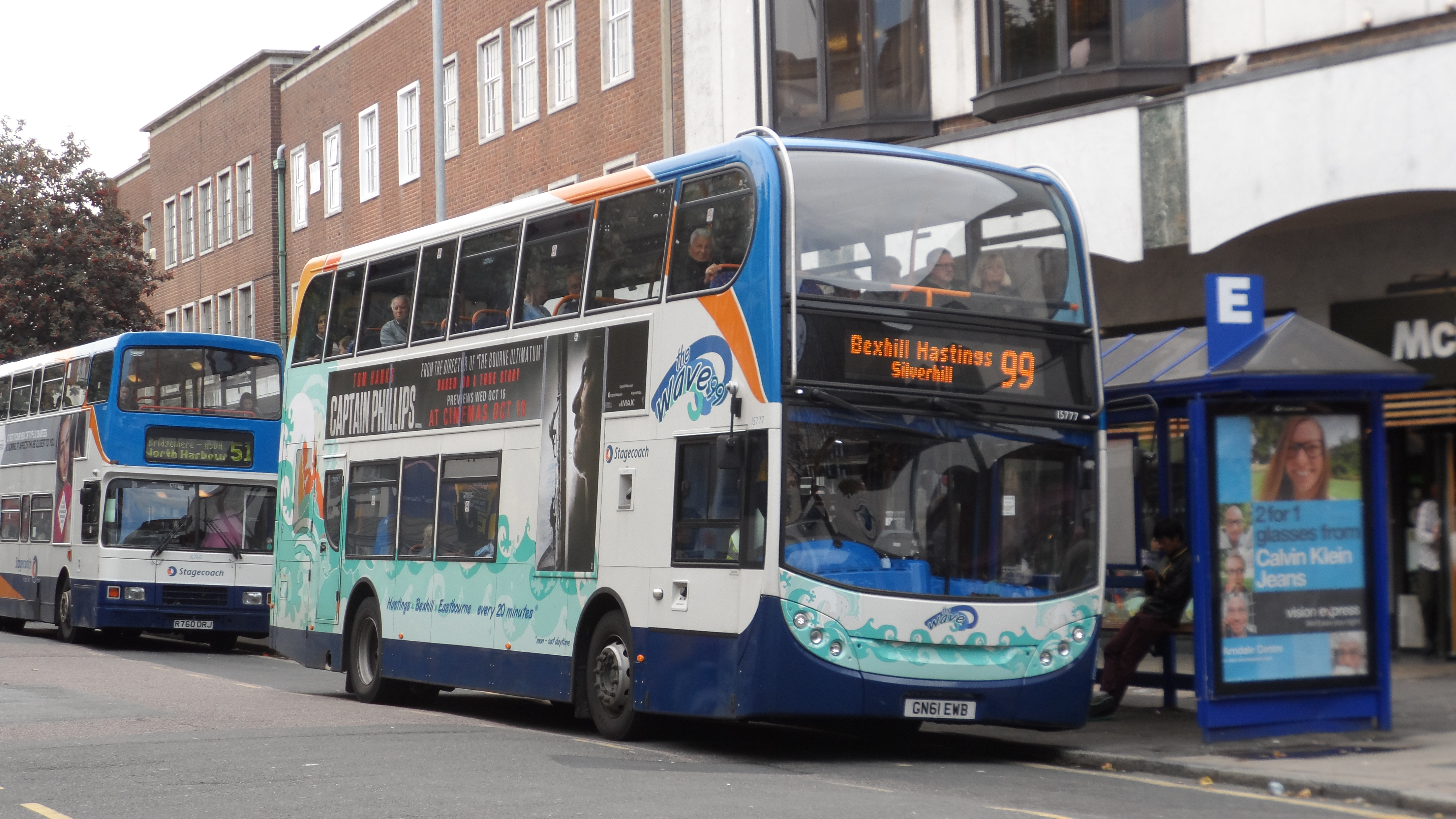 Stagecoach South East 15777 (GN61 EWB), a Scania N230UD/Alexander Dennis Enviro400, in Terminus Road, Eastbourne, East Sussex on route 99.